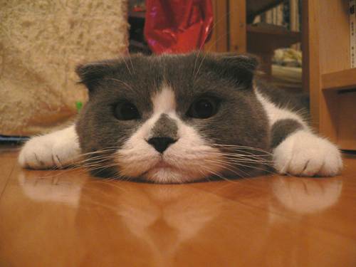 A Scottish Fold kitten with a blue and white coat.